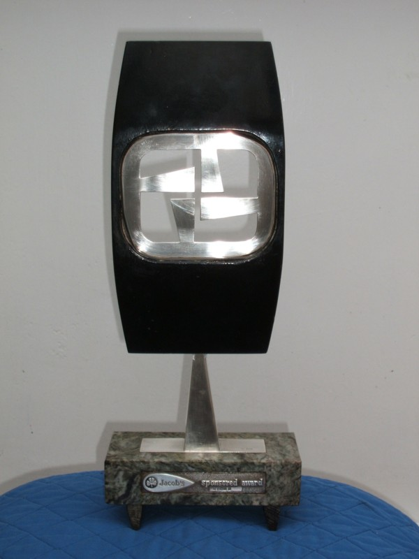 Photo taken by Stuart Hetherington on October 22nd 2007 of his own award. Stuart has granted permission for the photo to be used for any purpose, including commercial, and for it to be modified it according to the needs of any users. (E-mail sent to Communications Committee confirming the above.) Jim Bruce 18:50, 24 October 2007 (UTC)